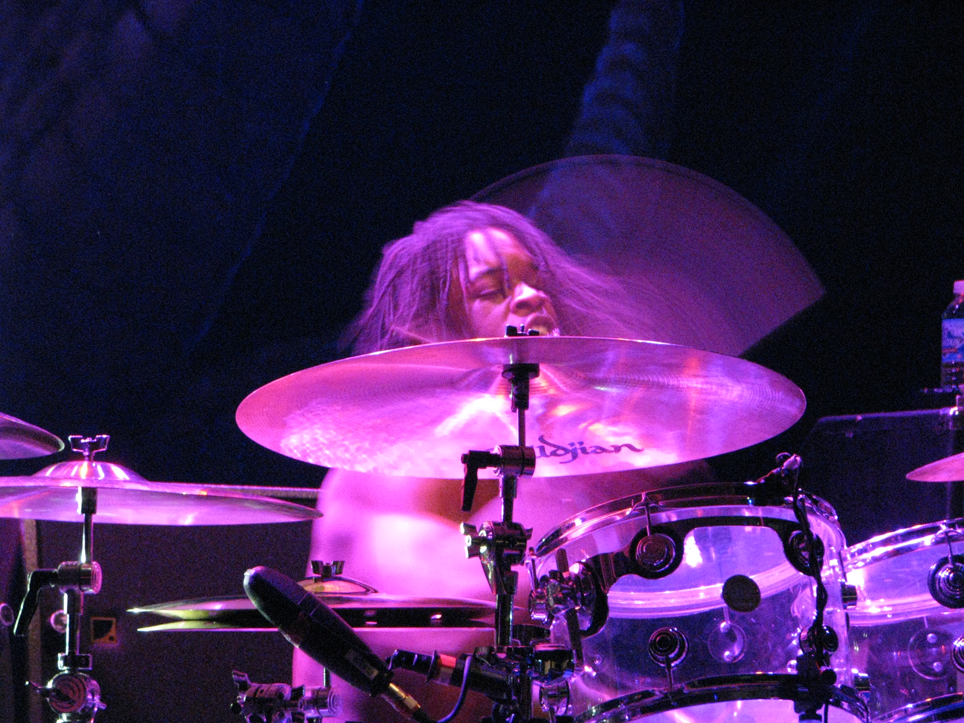 Thomas Pridgen, now a drummer for the Mars Volta, performing in the Roy Wilkins Auditorium in St. Paul, MN.